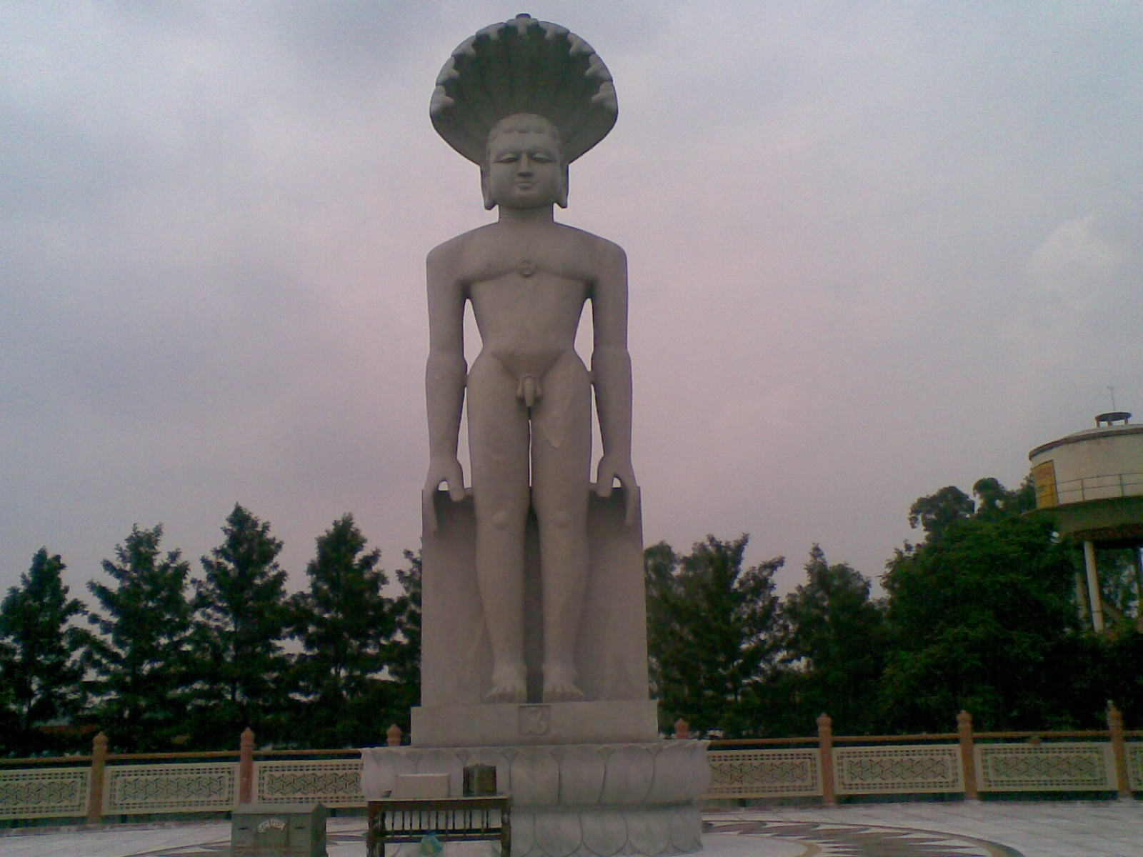 31 feet tall 1008_Bhagwan_Parshvnath_at_Digamber_Jain_Atishya_Chetra_Vahelna